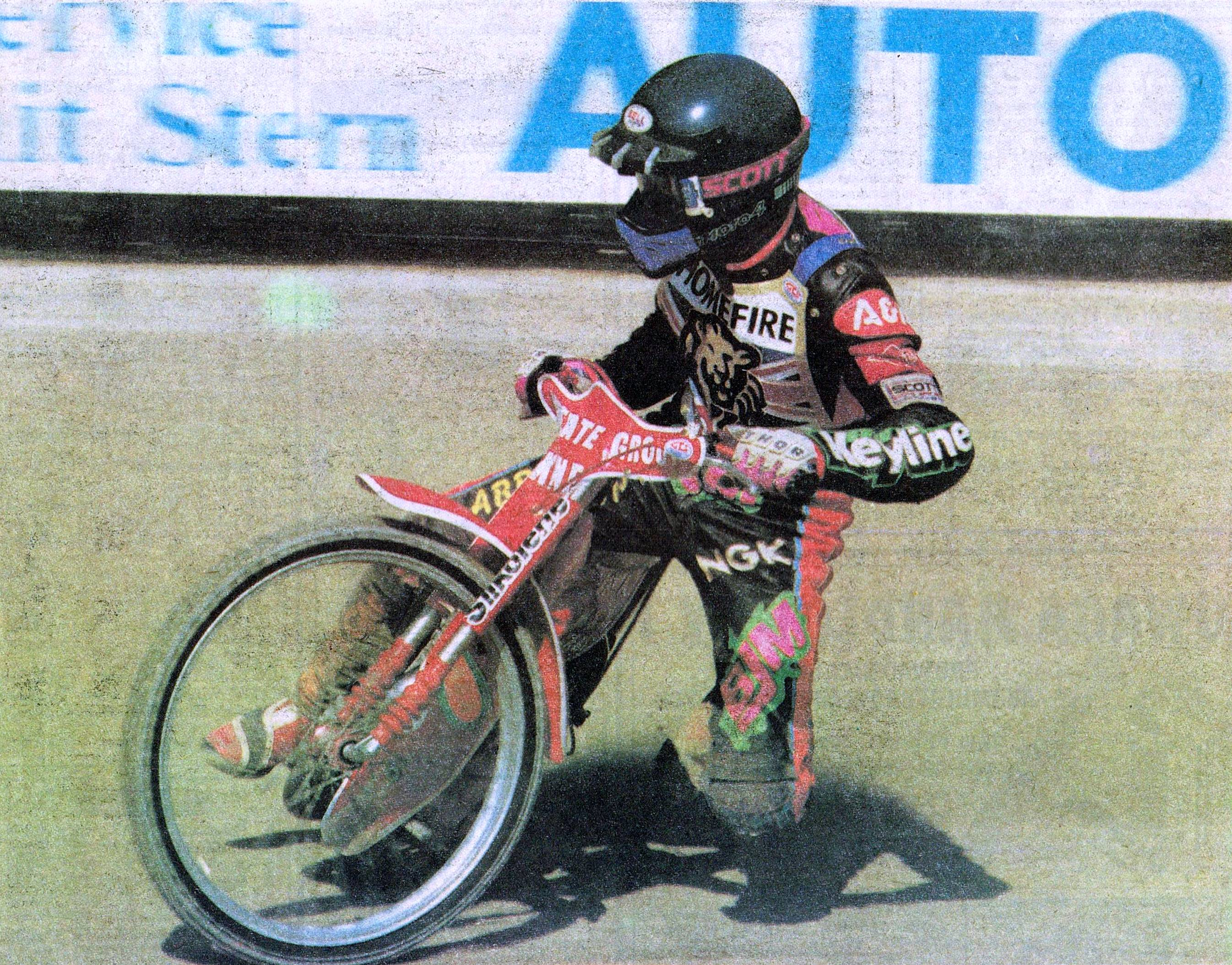 Mark Loram. Speedway rider.